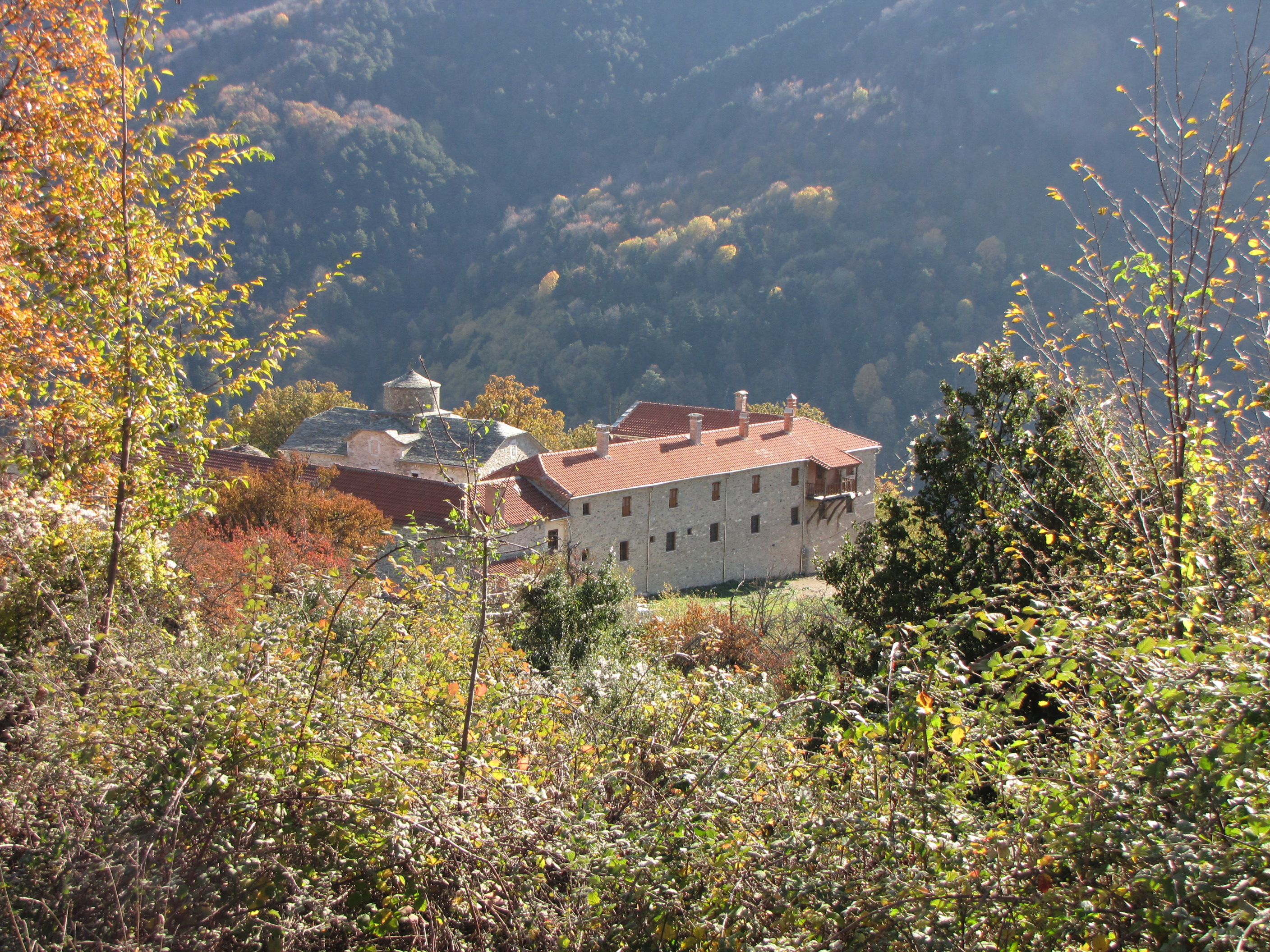 Convent Kanalon